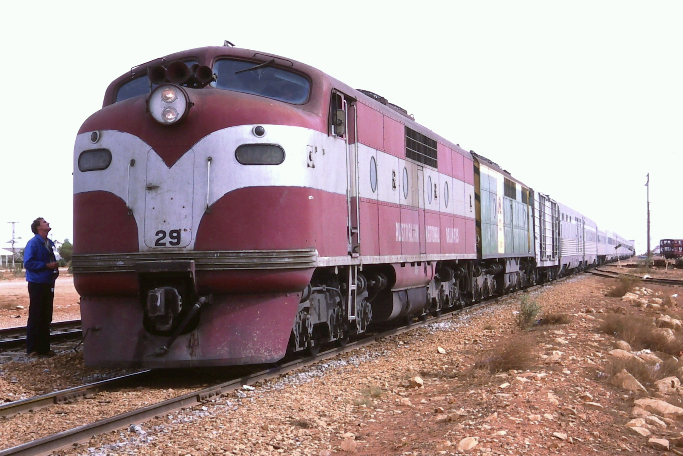 A passenger chats with the crew of Australian National's GM29 (still in Commonwealth Railways maroon livery with Australian National Railways lettering), which, together with GM3 (in AN green and gold livery) and the Adelaide-bound Trans Australian, has arrived about 30 minutes early at Rawlinna, Western Australia, on the Trans-Australian Railway, where it is waiting to cross the Perth-bound Trans at 13:00 WST. Kodachrome slide converted by Kaiser Baas Photo Maker Pro into a digital image.